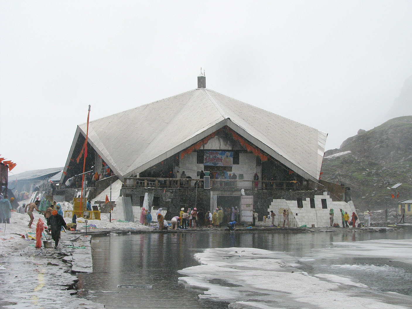 Gurdwara Hemkunt Sahib, More pictures and information about Hemkunt Sahib.